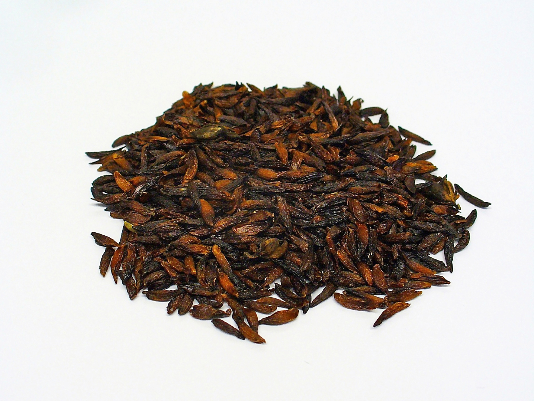 Schoenocaulon officinale, Melanthiaceae, Cebadilla, seeds.